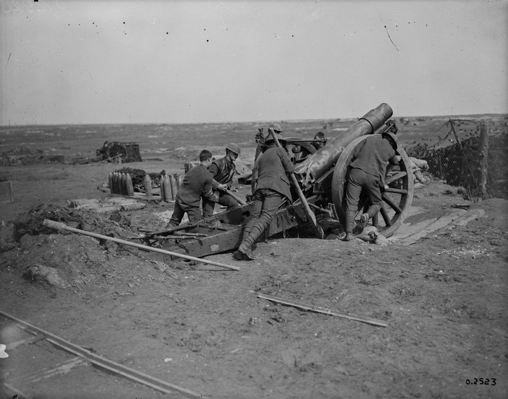 LAC. World War, 1914-1918 Equipment. A crew positioning a BL 6-inch howitzer, February 1918. The BL 6-inch 26cwt howitzer made its debut during the Battle of the Somme, the major British offensive launched on July 1, 1916.